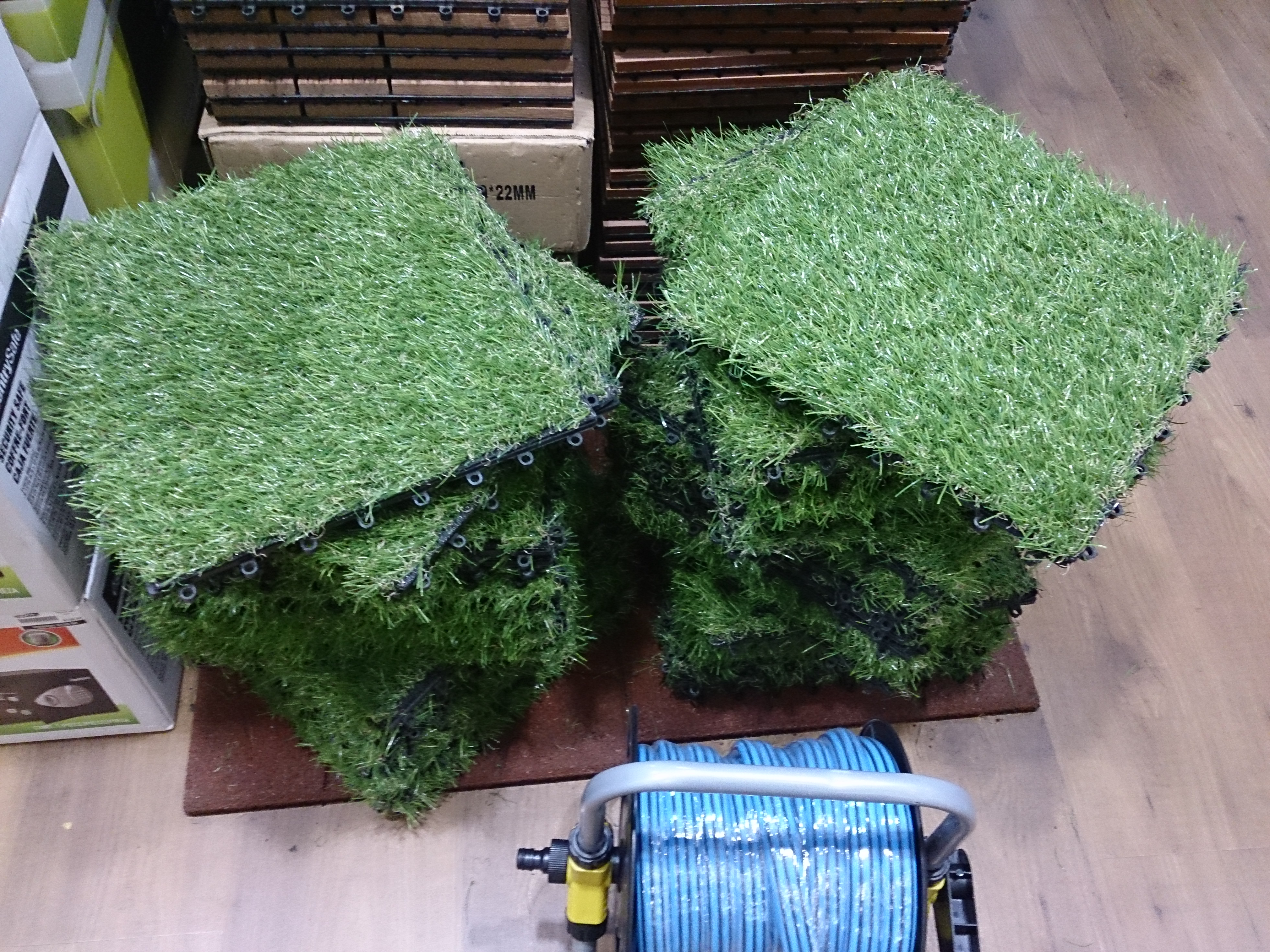 fake grass that will never die